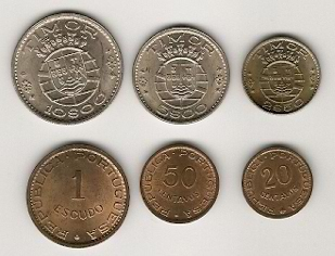 East Timor escudo coinage 1970.